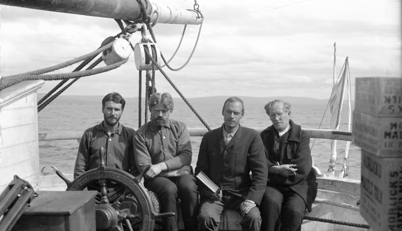 Ernest de Koven Leffingwell (left), Captain Ejnar Mikkelsen, Dr. G. P. Howe, Ejnar Ditlevsen. Staff of Duchess of Bedford. Anglo-American Polar Expedition. Canning district, Northern Alaska region, Alaska. 1906.